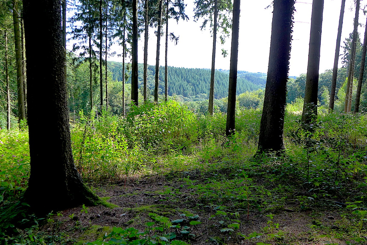 "Blade track" - the tourist marked route around the German city of Solingen (Northern Rhine-Westphalia). First stage: Gräfrath - Kohlfurth, 6,3 km.